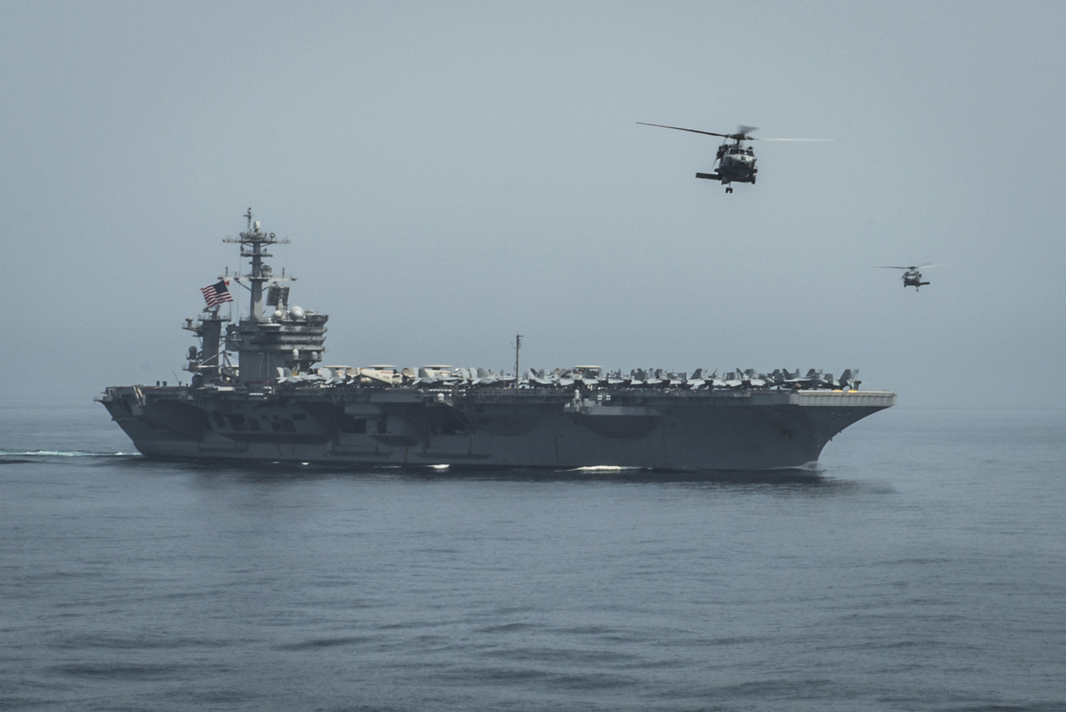 150413-N-HD510-024 GULF OF OMAN Helicopters fly from the aircraft carrier USS Theodore Roosevelt during a vertical replenishment with the aircraft carrier USS Carl Vinson. Carl Vinson will be the U.S. 5th Fleet area of responsibility for its homeport of San Diego after supporting Operation Inherent Resolve, maritime security operations, strike operations in Iraq and Syria as directed, and theater security cooperation efforts in the region.